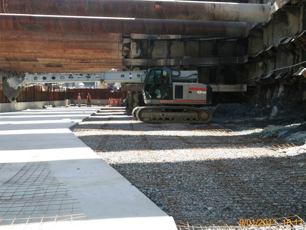 This photo shows a subterranean construction site with half a mud slab already cured, and the other half prepared with rebar and aggregate, ready for pouring.